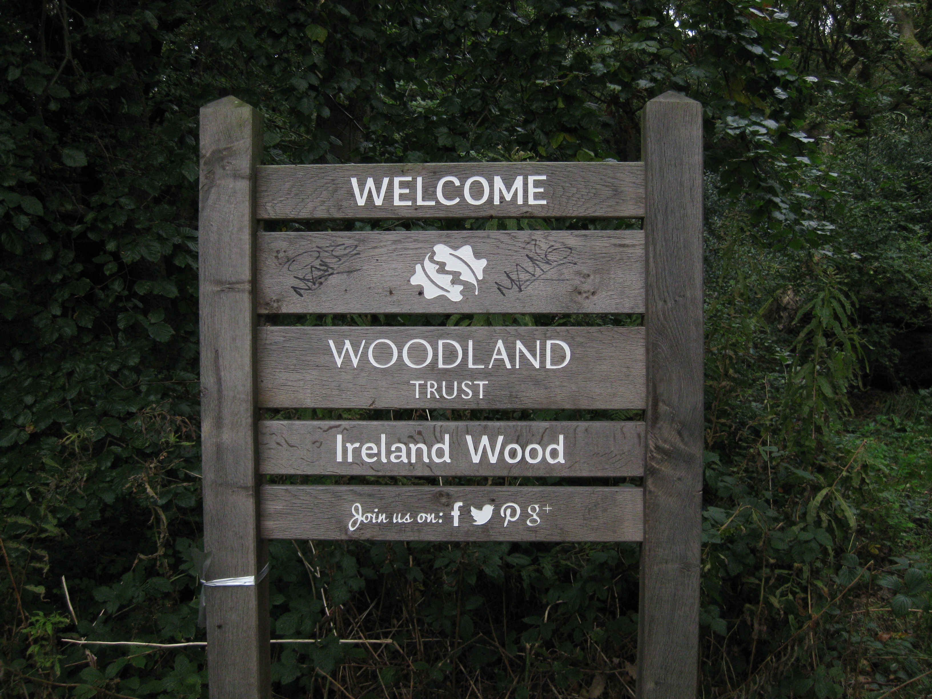 Welcome sign for Ireland Wood, Hospital Lane, Leeds LS16